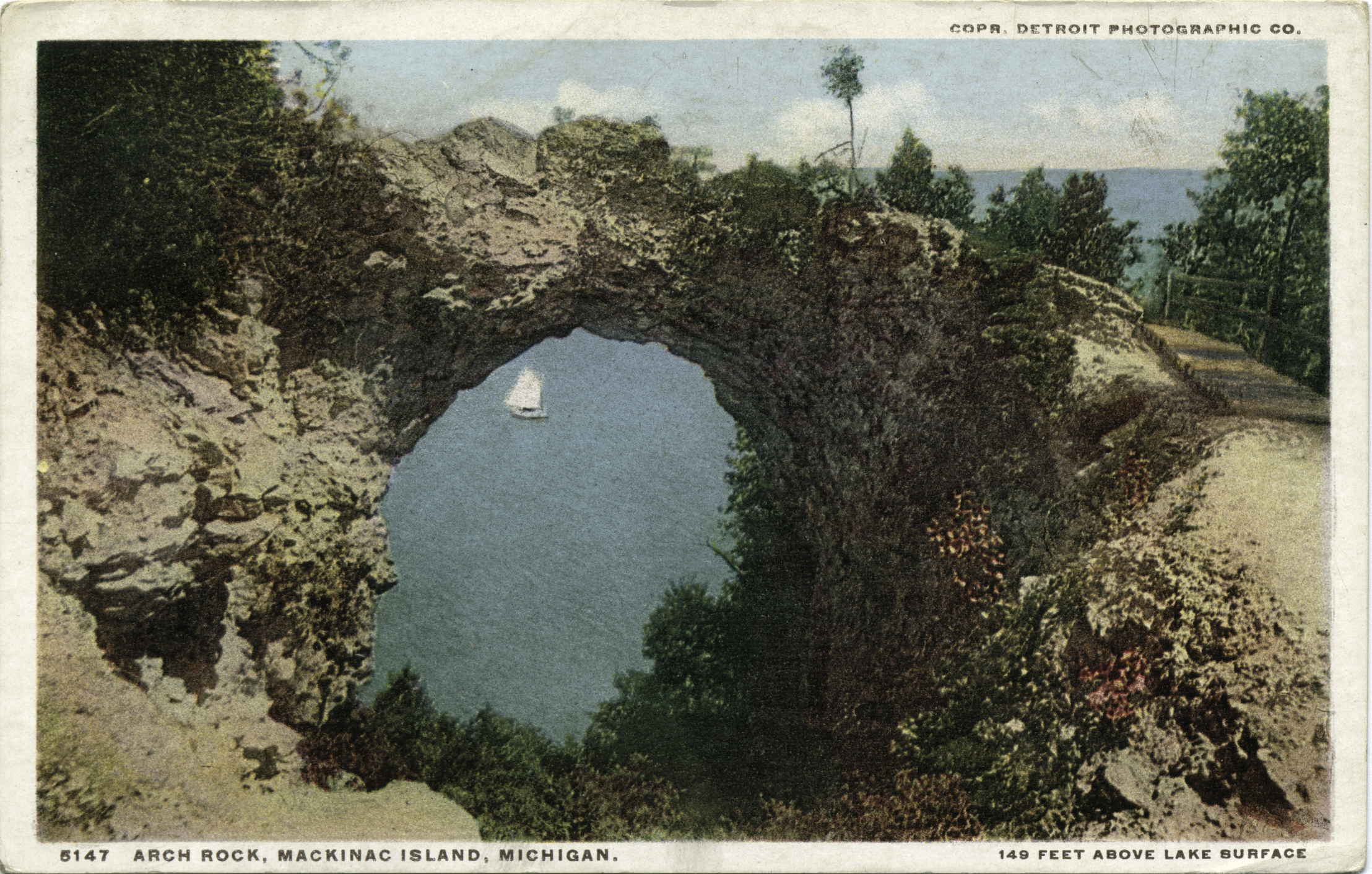 Postcard series number: 5147 1901-1902. Included occasional reprints from 1000 series.